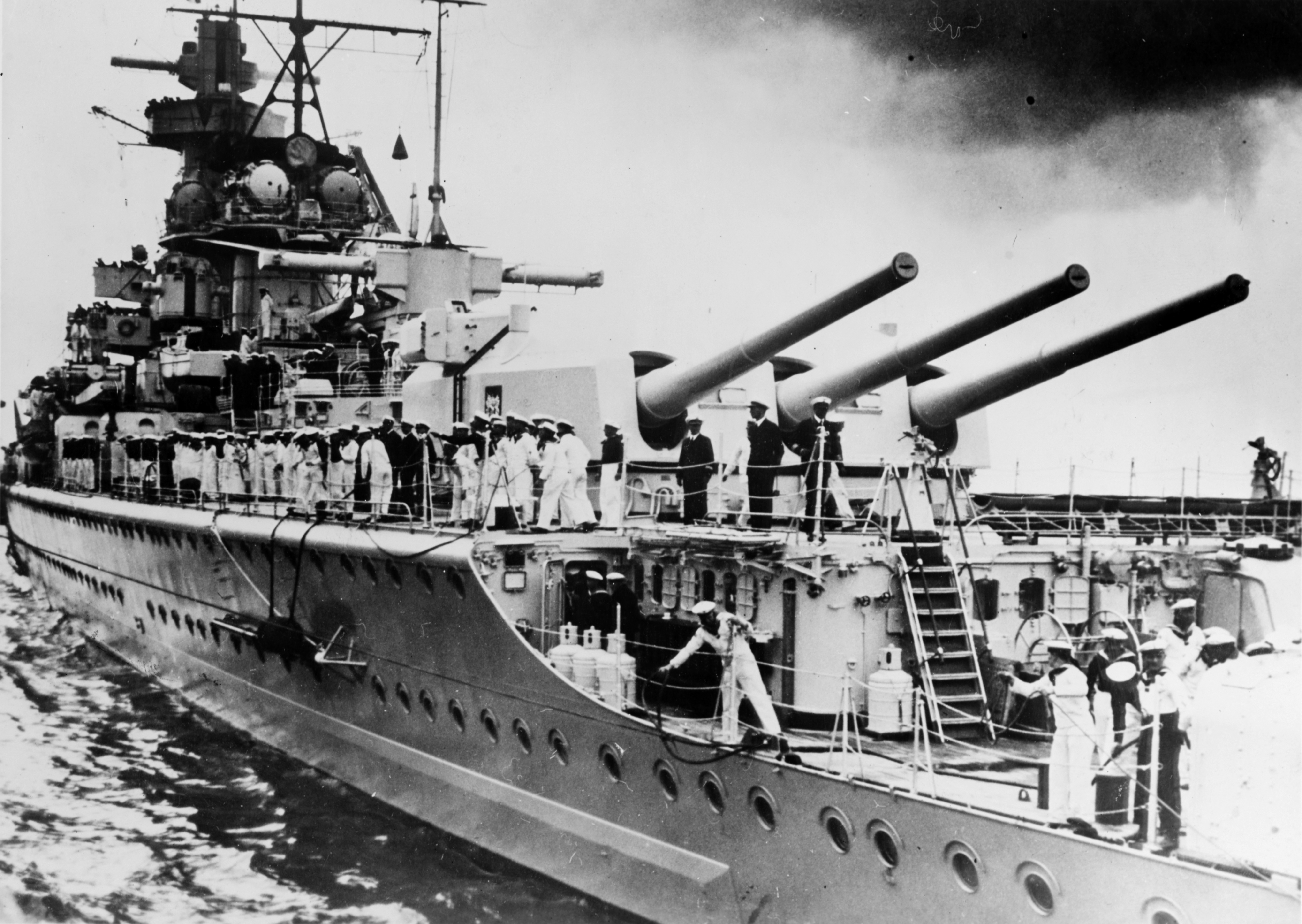 (German Armored Ship, 1936) In European waters in mid-1939, prior to her departure for the south Atlantic. An Arado Ar 196A-1 floatplane, one of the first of its type to enter German Navy service, is visible on Admiral Graf Spee's catapult, just forward of the ship's after main battery rangefinder. Note the triple eleven-inch gun turret. U.S. Naval History and Heritage Command Photograph.